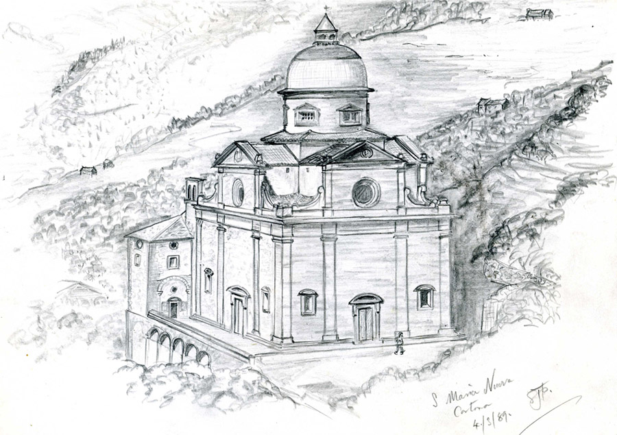 Original pencil sketch of S Maria Nuova at Cortona taken from life in 1989, to illustrate the architecture of the church.